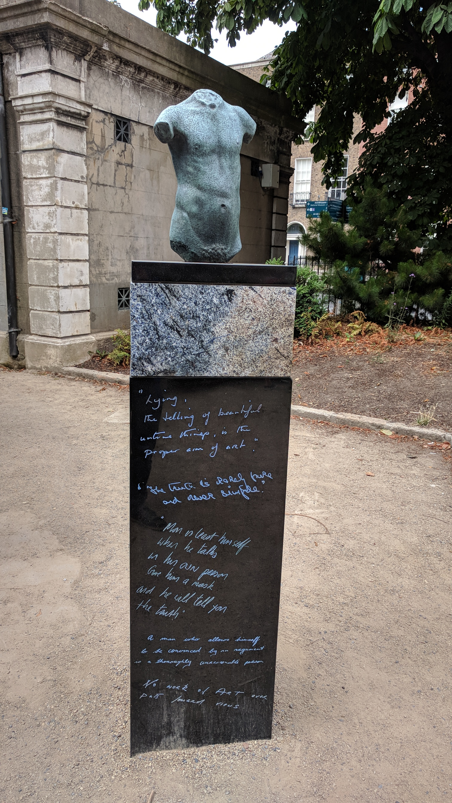 Statue of Dionysus on plinth with quotations - companion piece to Oscar Wilde statue, Merrion Square Park, Dublin, Ireland.